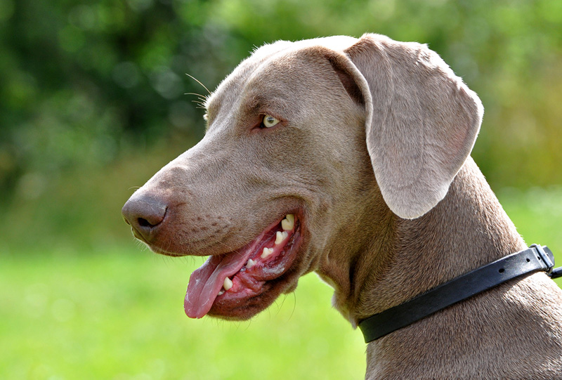 Weimaraner